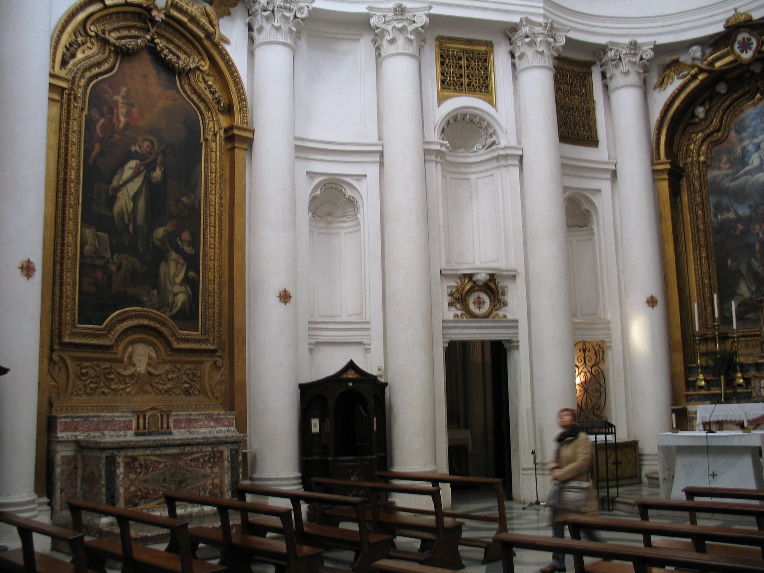 The left altar is dedicated to Saint Juan Bautista dela Concepción. The altarpiece by Prospero Mallerina shows the saint in ecstacy, while looking upon a crucifix